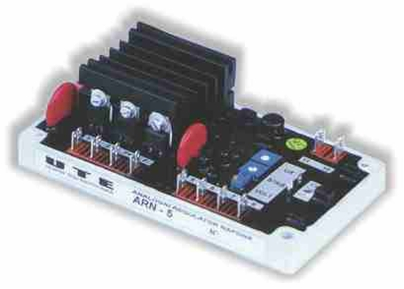 Аналогни_регулатор_напона_етф.jpg